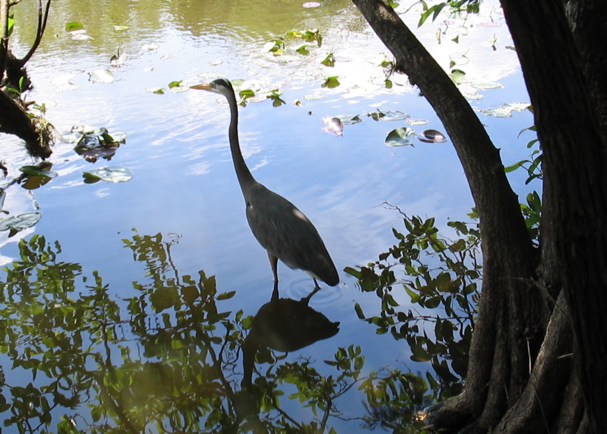 A great blue heron wading in a pond near Shark Valley. Everglades, Florida, USA.